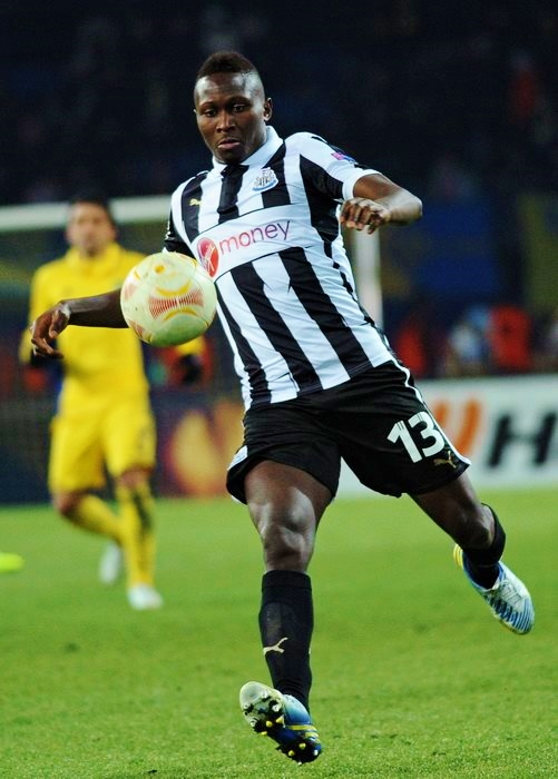 Mapou Yanga-Mbiwa